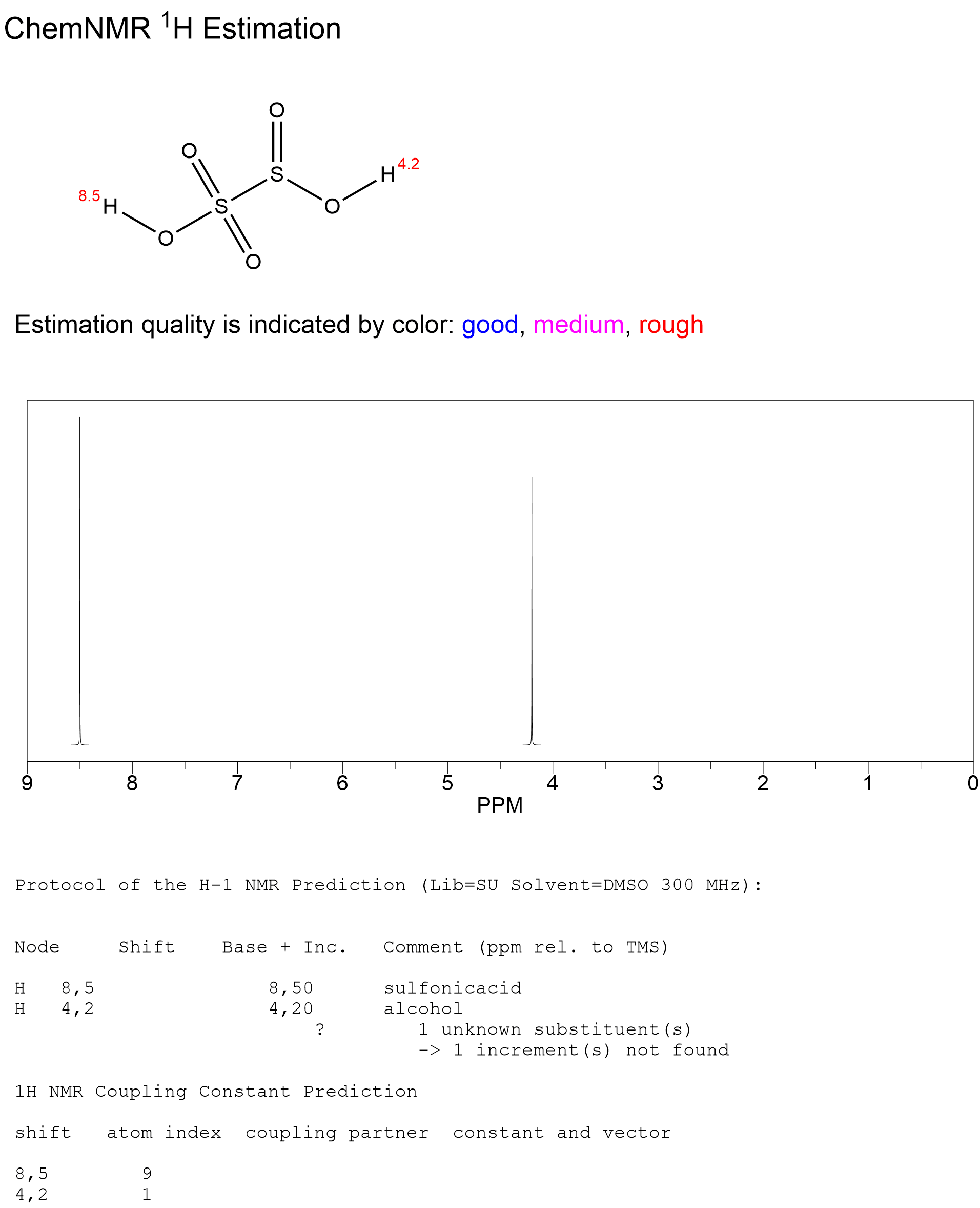 Disulfurous acid 1H NMR spectrum generated by ChemNMR.